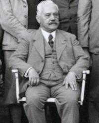 Arnold Sommerfeld, 1935 at Stuttgart on the occasion of a physicists congress.